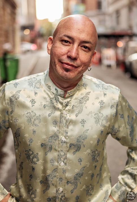 Ballpoint pen artist Lennie Mace arrives for his "PEN PAL" exhibition at 111 Minna Gallery, San Francisco (USA) for festivities related to the Yerba Buena Gallery Walk, October 2012. Photograph by David Lees, The Studio Deux, Copyright 2012 all rights reserved.